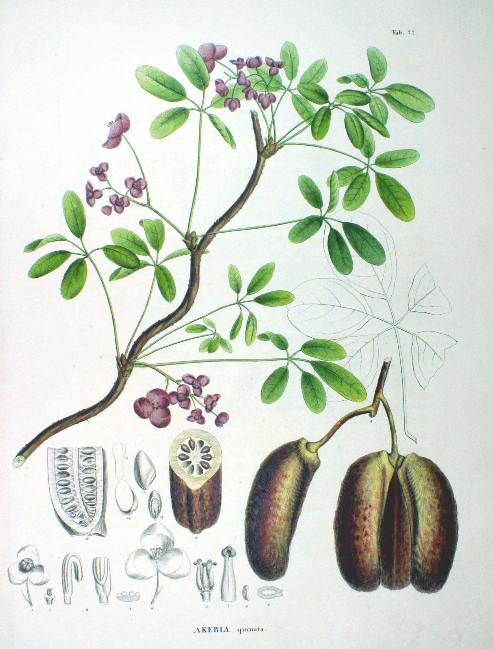 Plate from book